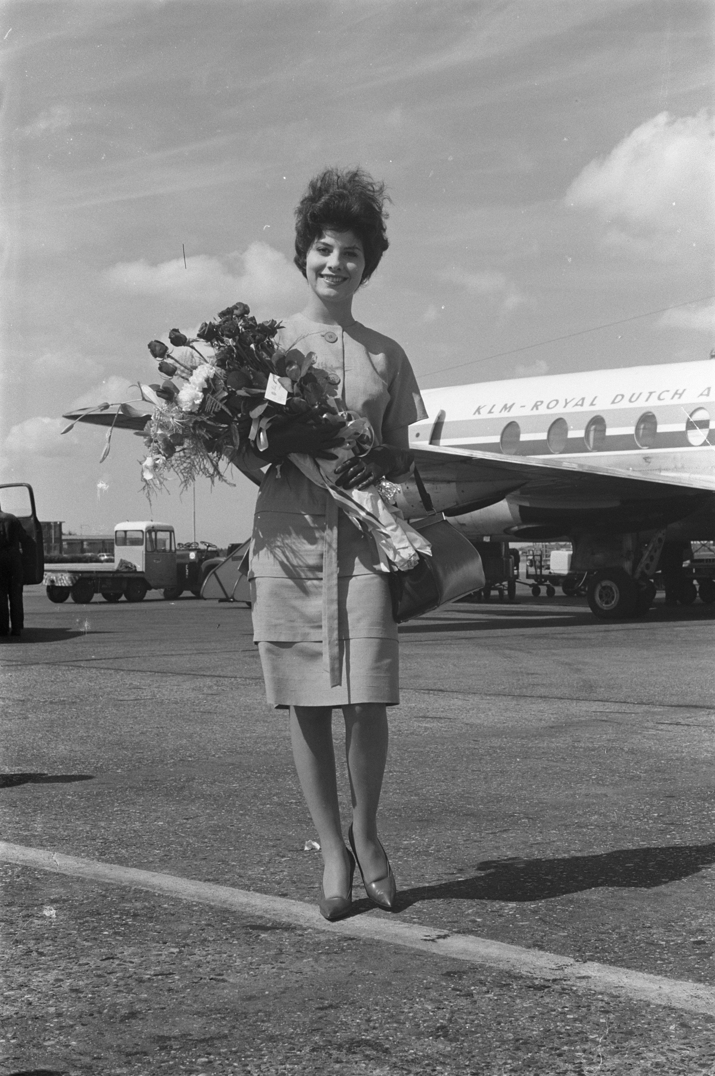 Miss International Beauty Stanny van Baer, Schiphol Airport (the Netherlands), 10 August 1961.